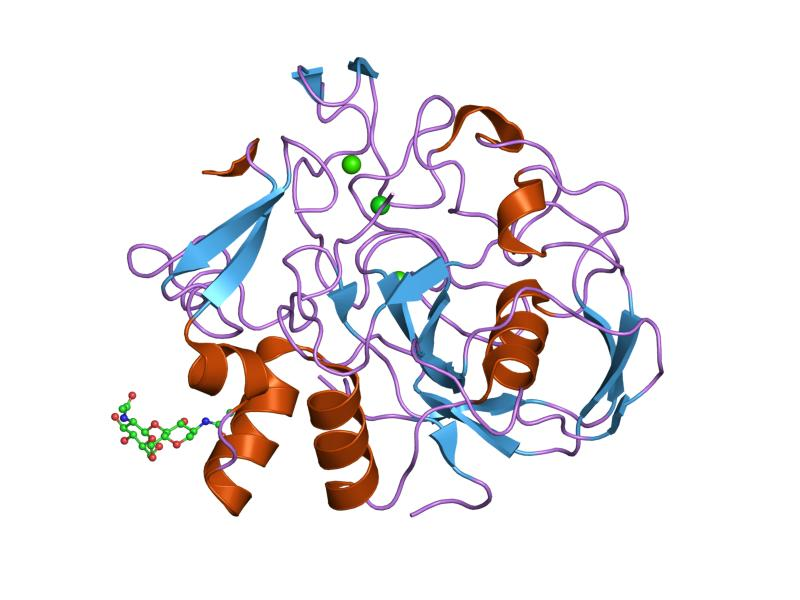 Cartoon representation of the molecular structure of protein registered with 2aik code.